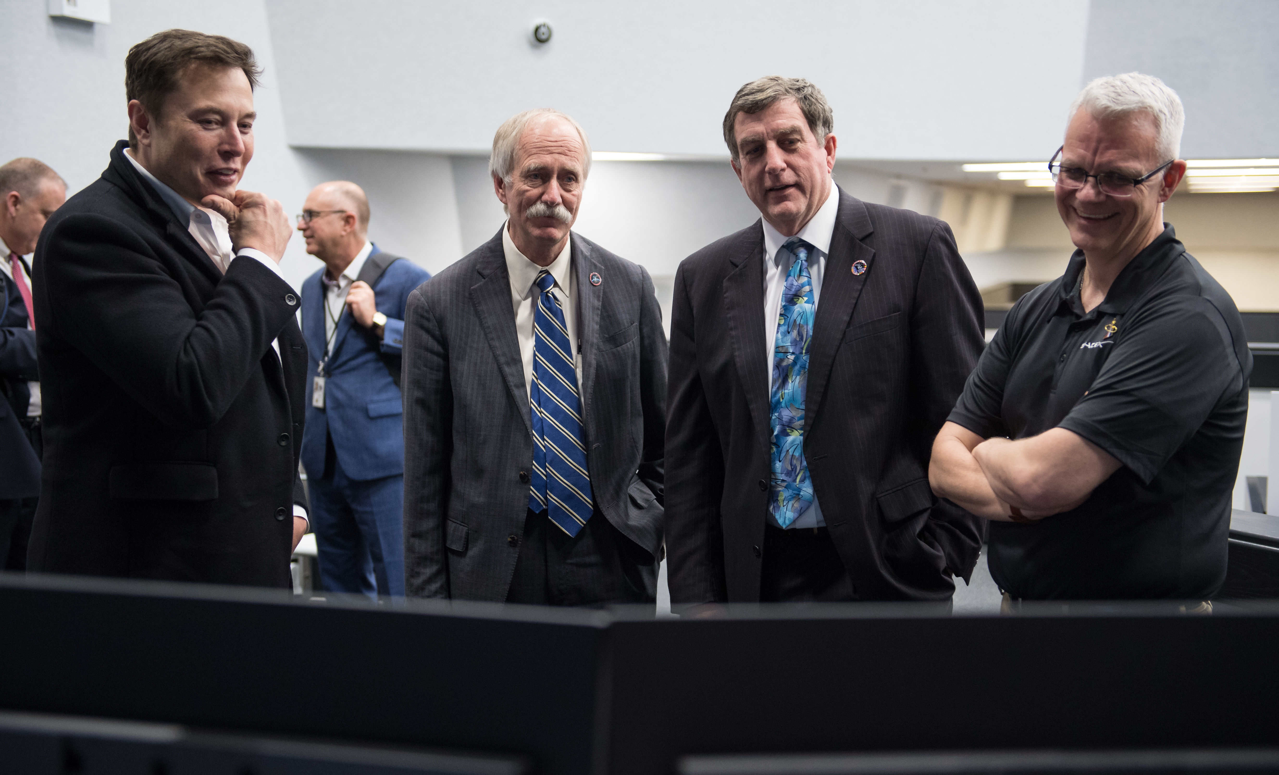 SpaceX CEO and Chief Designer Elon Musk, left, NASA Associate Administrator for the Human Exploration and Operations Mission Directorate William Gerstenmaier, second from left, NASA International Space Station Program Manager Kirk Shireman, second from right, and SpaceX Director of Crew Mission Management Benji Reed, right, watch the progress of the Crew Dragon spacecraft after launch from firing room four of the Launch Control Center, Saturday, March 2, 2019 at the Kennedy Space Center in Florida. The Demo-1 mission will be the first launch of a commercially built and operated American spacecraft and space system designed for humans as part of NASA's Commercial Crew Program. The mission will serve as an end-to-end test of the system's capabilities. Photo Credit: (NASA/Joel Kowsky)